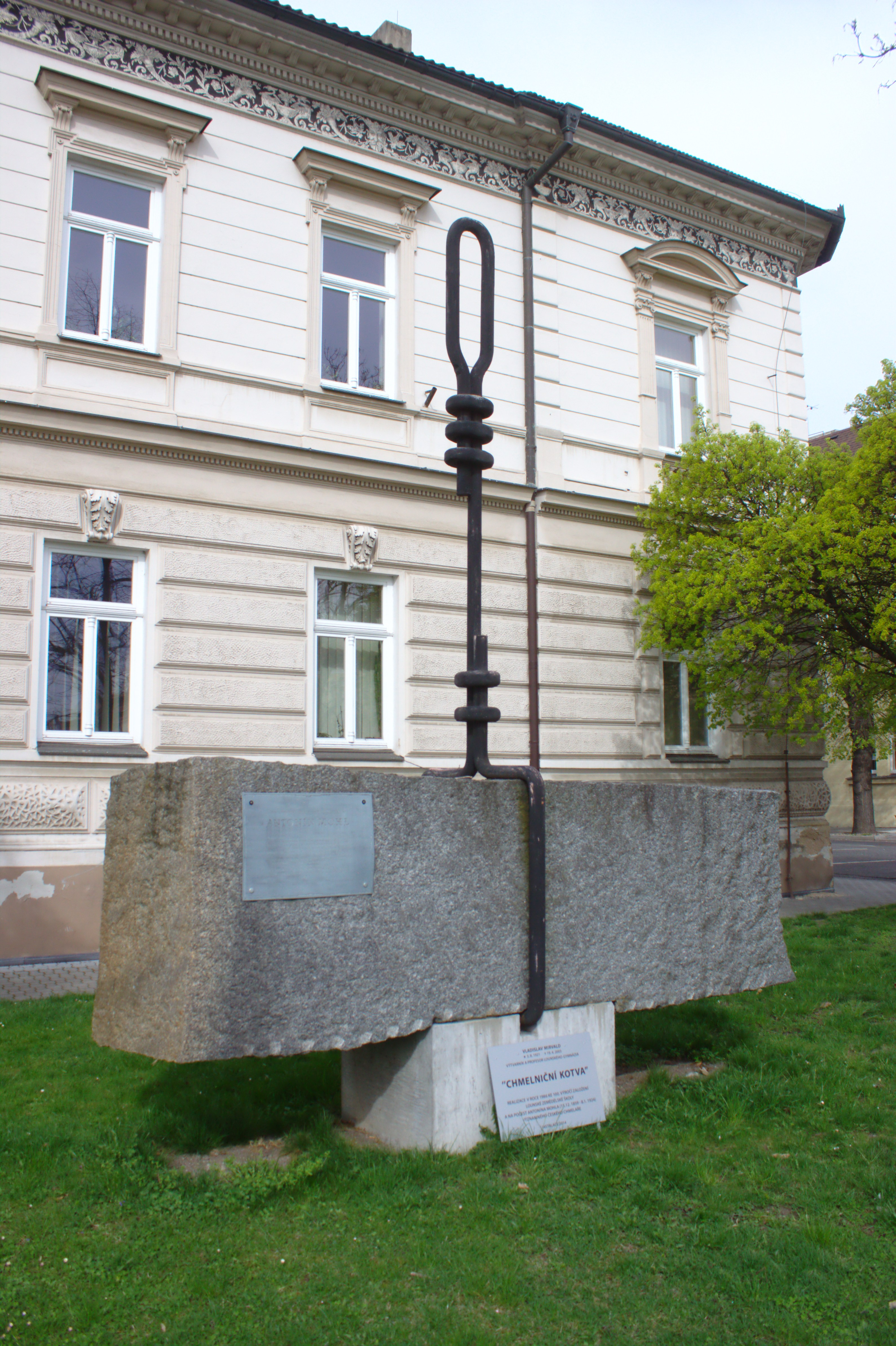 An anchor monument in Louny, Na Valech Street, CZ